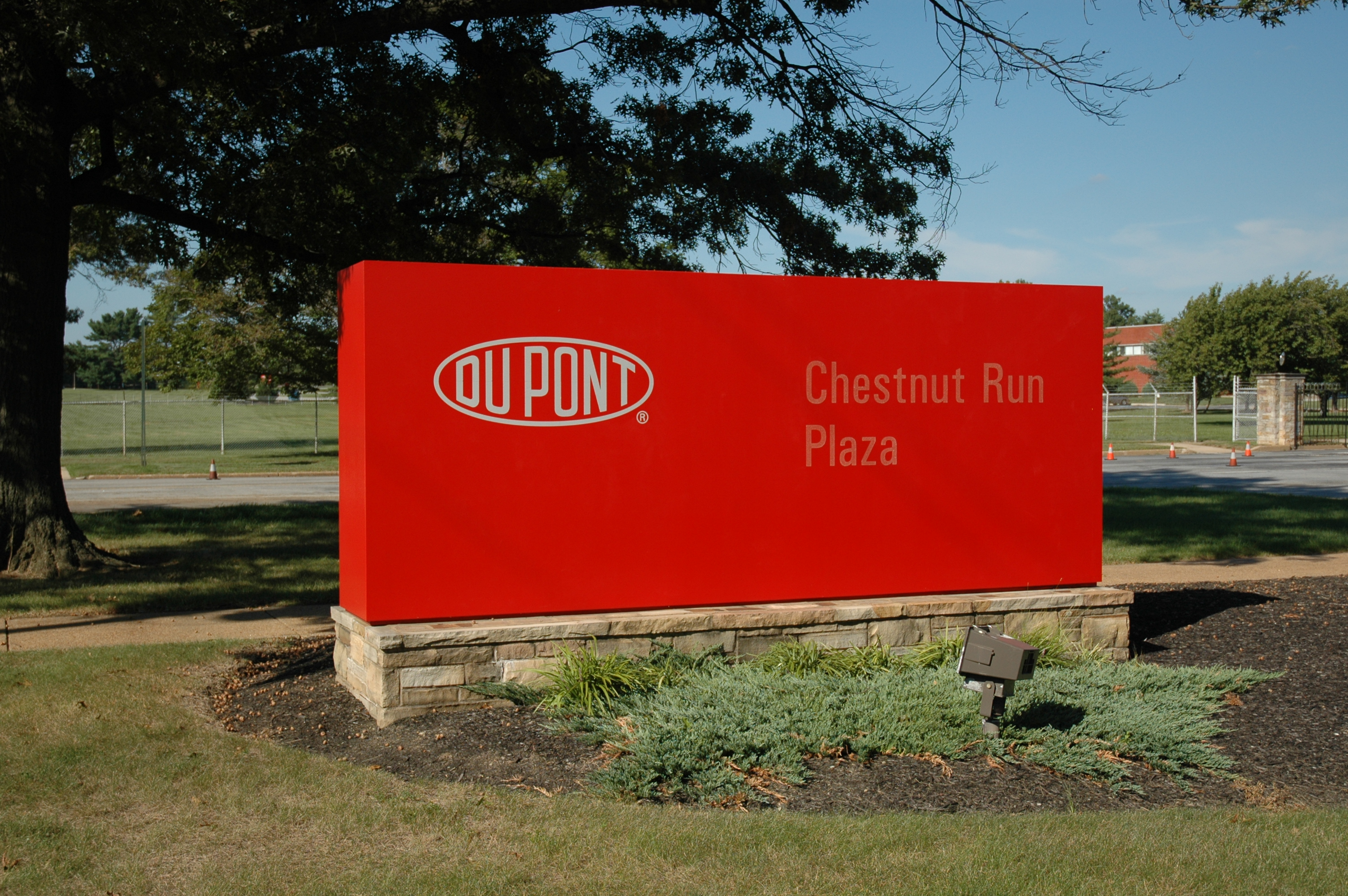 Entrance sign to DuPont Chestnut Run in Wilmington, Delaware